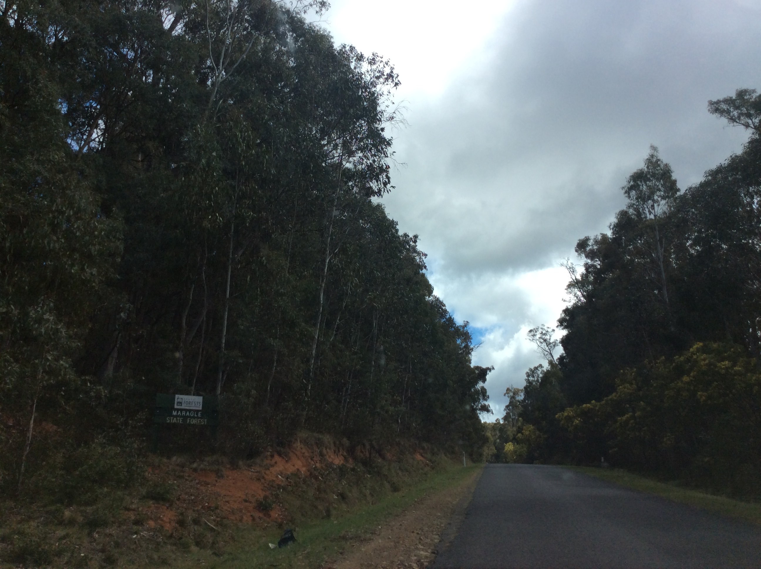 To post on the Maragle, New South Wales article.